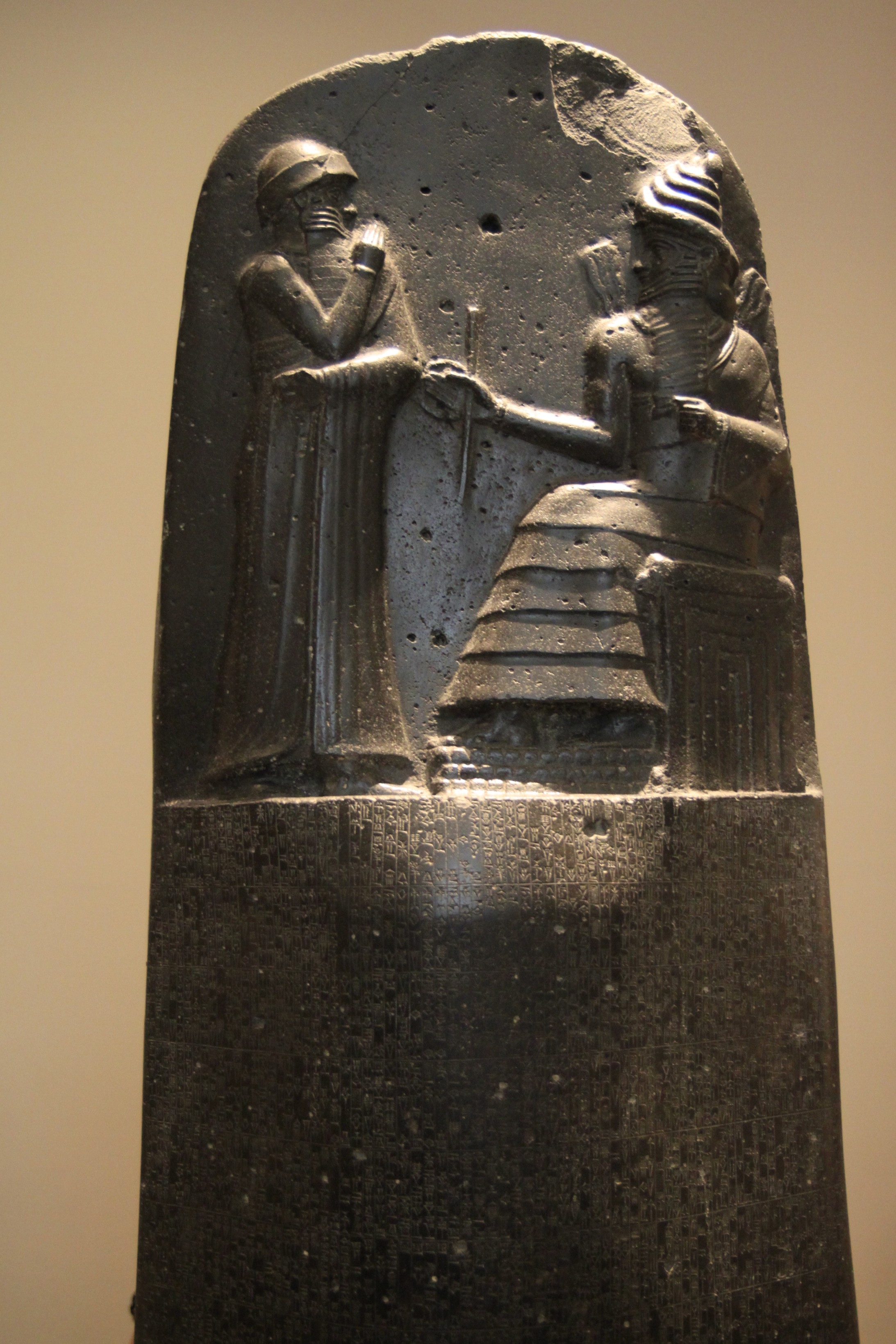 Code of Hammurabi